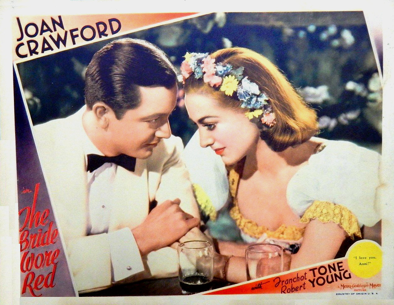 Lobby card for the American film The Bride Wore Red (1937). The item has no copyright marks on it as can be seen at links and original upload. At bottom right is Country of origin USA.